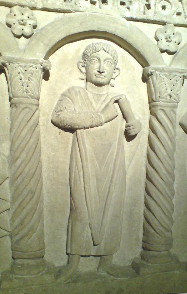 Jesus Christ 5th cent Sarcophagus Istanbul Museum